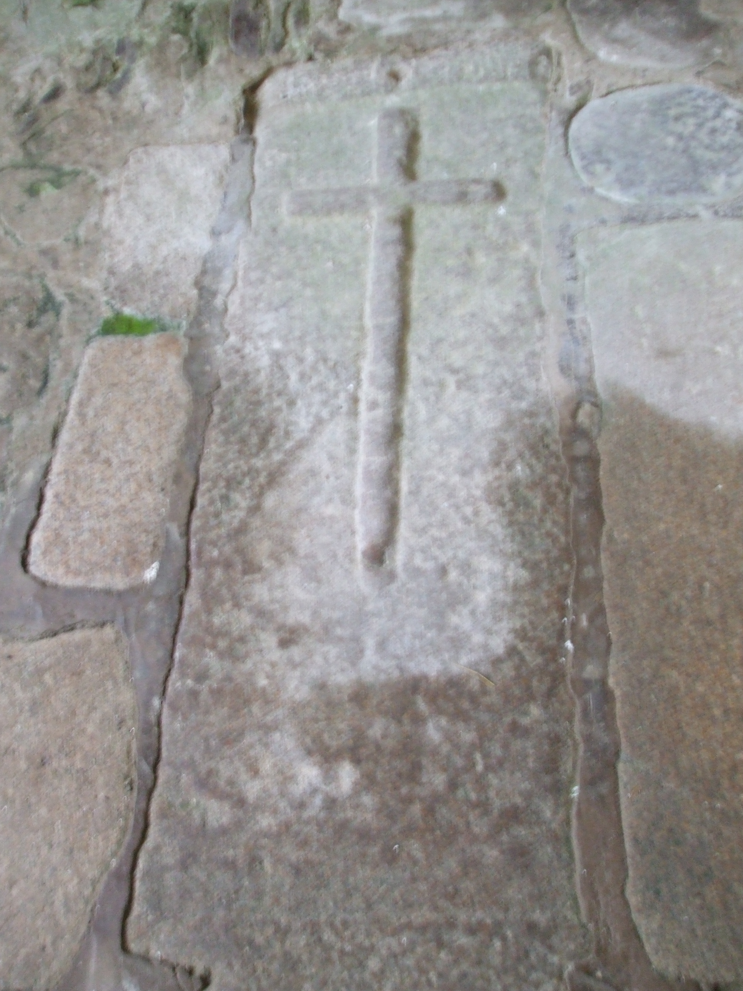 Ledger stones in France, church of Lageyrat, Châlus, Haute-Vienne, France